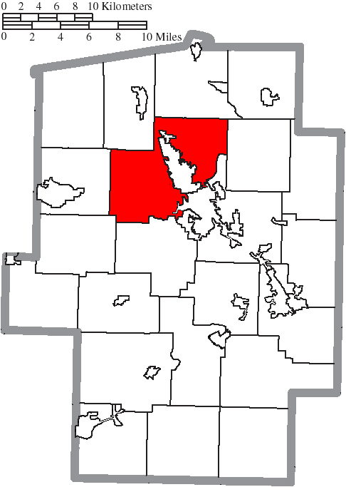 Map of the municipal and township boundaries of Tuscarawas County, Ohio, United States, as of the 2000 census, with the location of Dover Township highlighted. Township borders are shown only in unincorporated areas in order to differentiate incorporated and unincorporated areas more clearly.